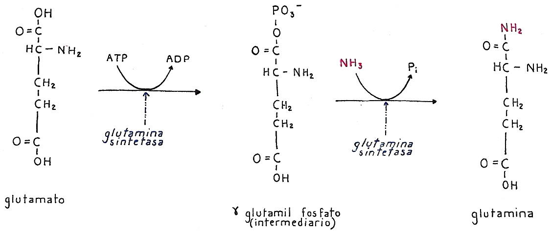 glutamine synthetase